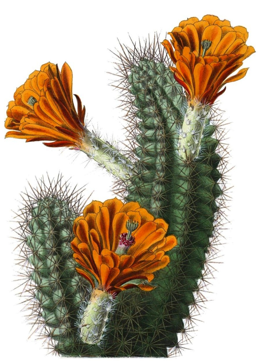 Echinocereus polyacanthus